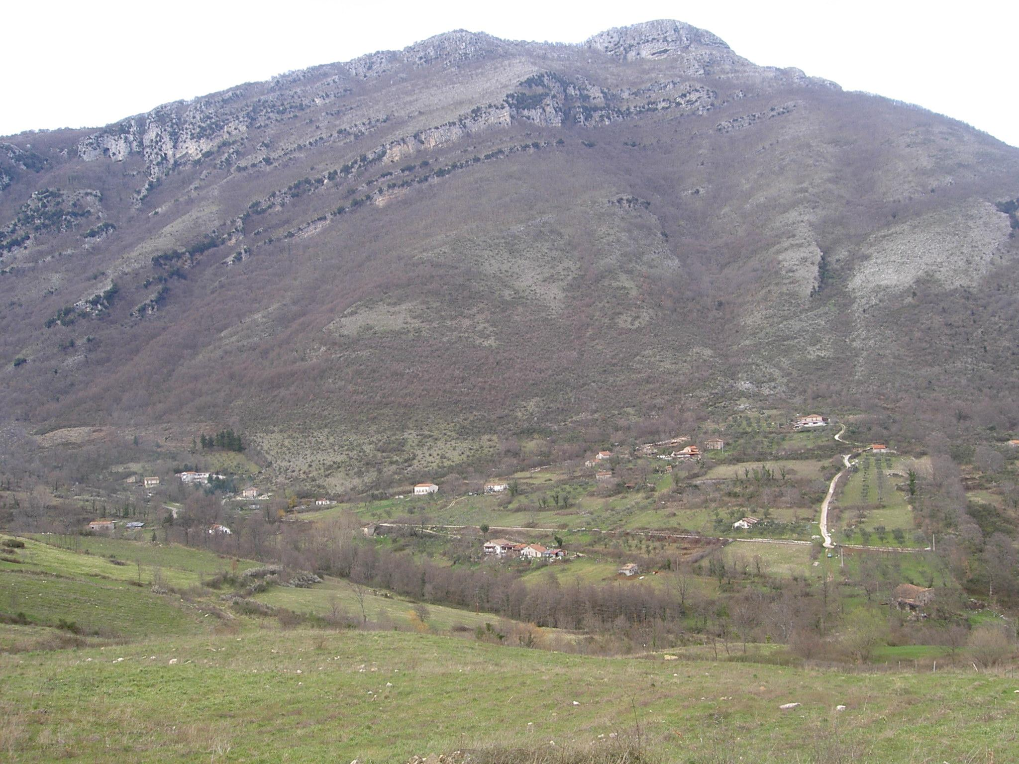 View of the village of Pruno di Laurino from the hills nearby Pruno di Valle dell'Angelo and Pruno di Piaggine. In background the mount Rotondo (1,388 m).